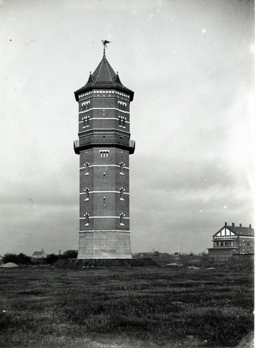 Sundby Vandtårn in Amager, Copenhagen, Denmark